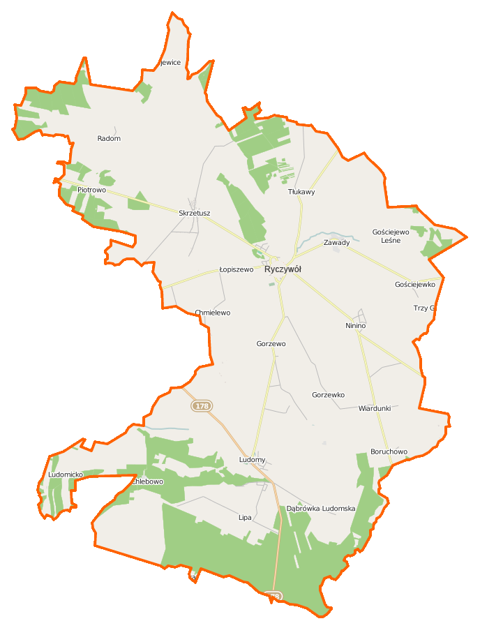 Map of Gmina Ryczywół, Poland This map of Ryczywół (gmina) was created from OpenStreetMap project data, collected by the community. This map may be incomplete, and may contain errors. Don't rely solely on it for navigation. Border coordinates52.892516.6951←↕→16.932052.7057